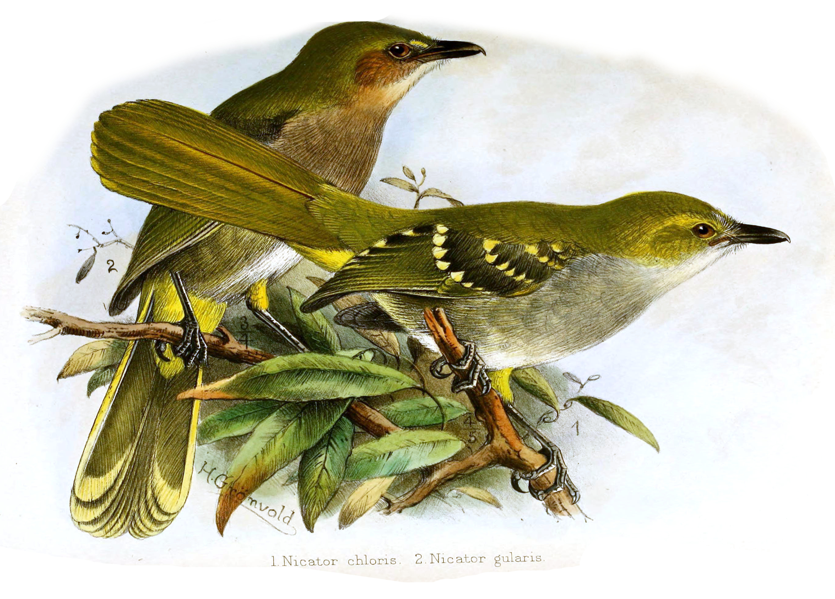 Nicator chloris, Nicator gularis